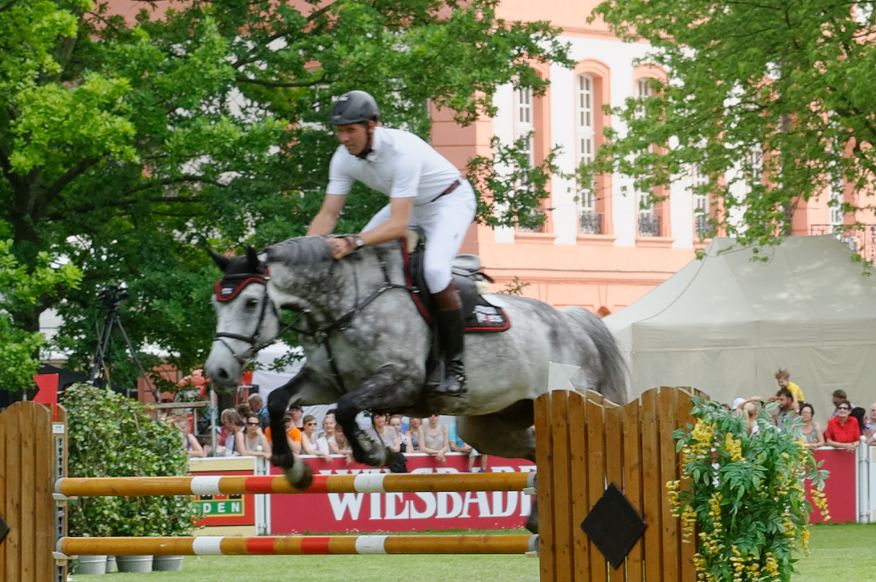 Internationales Pfingstturnier Wiesbaden 2014 The making of this document was supported by the Community-Budget of Wikimedia Germany.